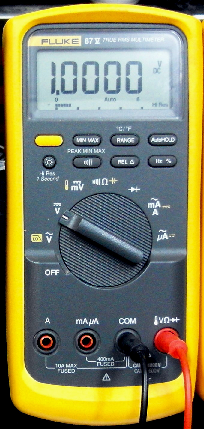 One of the most popular high end 4 1/2 digit multimeters, the Fluke 87-V